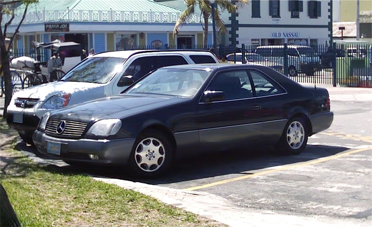 W140 Mercedes-Benz S500 coupe. Photographed by Jagvar in Nassau, Bahamas on March 10, 2006.